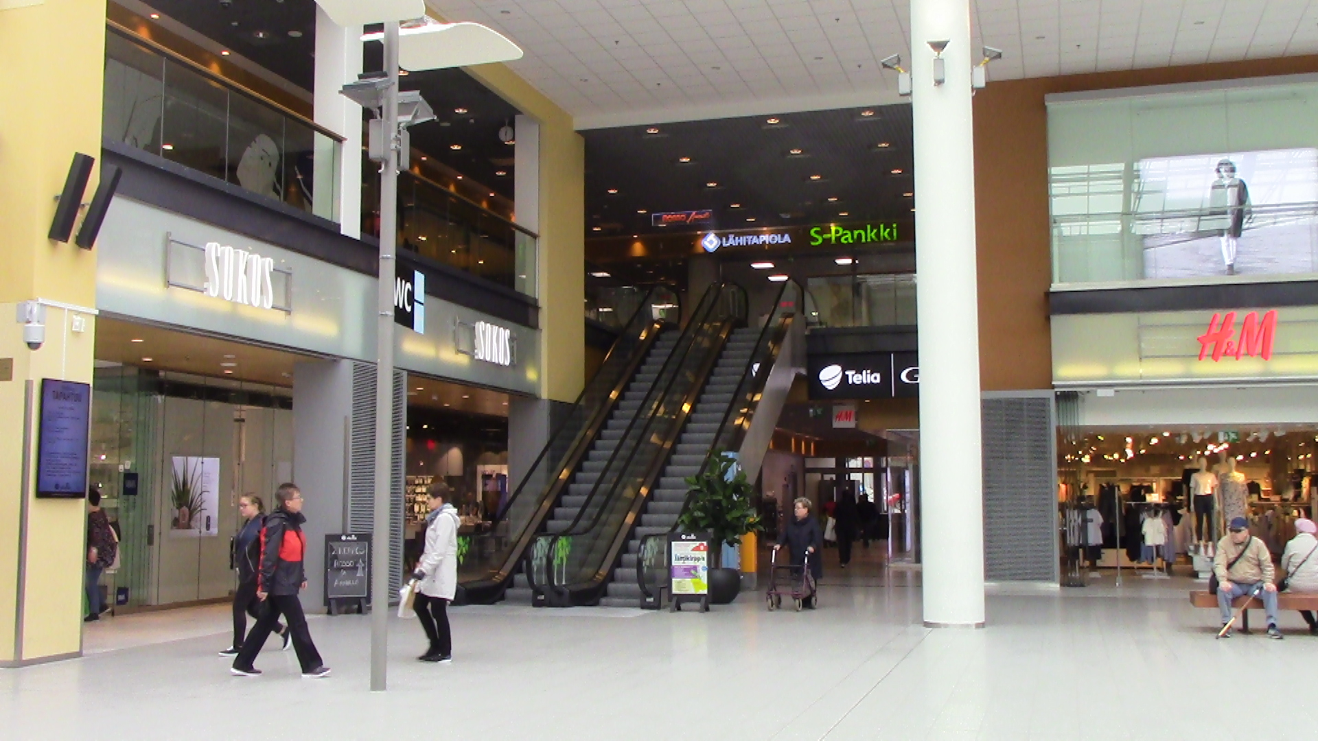 The main square of Stella shopping center in Mikkeli.